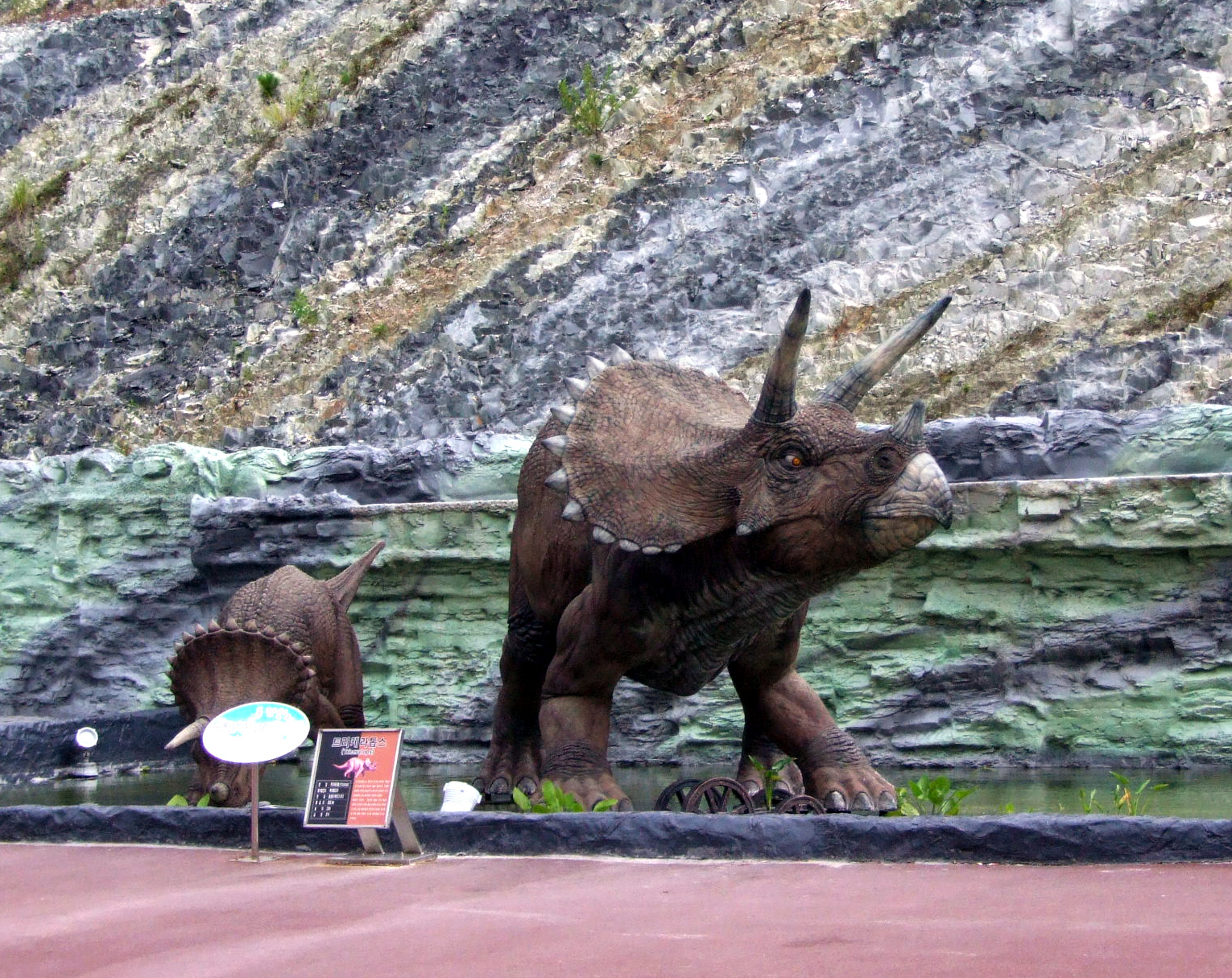 Goseong Hightway Rest Place